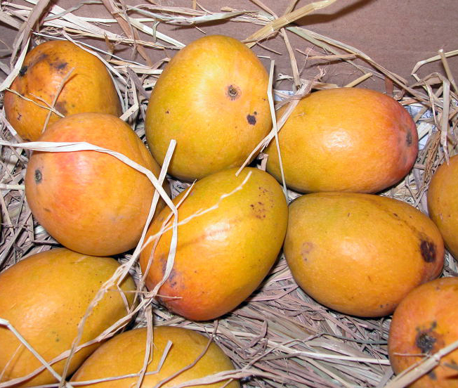 Original description: Photo taken by myself of Alphonso Mangoes in a box surrounded by straw to provide insulation. This is a free image and has no rights attached to it and may be used freely.